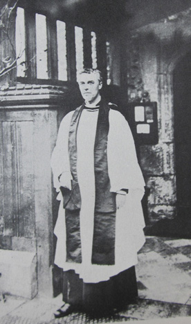 Photo of Church of England clergyman and author Victor L. Whitechurch.